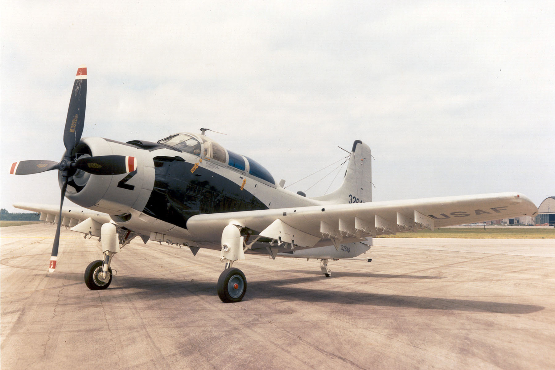 The Douglas A-1E Skyraider (U.S. Navy BuNo 132649) at the National Museum of the United States Air Force (Dayton, Ohio, USA) is the airplane flown by Maj. Bernard Fisher on 10 March 1966, when he rescued a fellow pilot shot down over South Vietnam in the midst of enemy troops. For this deed he was awarded the Medal of Honor. The airplane, severely damaged in combat in South Vietnam, came to the museum in 1967 for preservation. From July 1965 through June 1966, he flew 200 combat sorties in the A-1E/H as a member of the 1st Air Commando Squadron located at Pleiku Air Base, South Vietnam. On March 10, 1966, he led a two-ship of Skyraiders to the A Shau Valley in support of friendly troops in contact with the enemy. A total of six "Spads" were striking numerous emplacements when the A-1 piloted by Major D. W. "Jump" Myers was hit and forced to crash-land on the airstrip of the CIDG-Special Forces camp. Myers bellied in on the 2,500-foot runway and took cover behind an embankment on the edge of the strip while Major Fisher directed the rescue effort. Since the closest helicopter was 30 minutes away and the enemy was only 200 yards from Myers, Fisher quickly decided to land his two-seat A-1E on the strip and pick up his friend. Under the cover provided by the other A-1s, he landed in the valley, taxied to Myer's position, and loaded the downed airman into the empty seat. Dodging shell holes and debris on the steel planked runway, Major Fisher took off safely despite many hits on his aircraft by small arms fire.